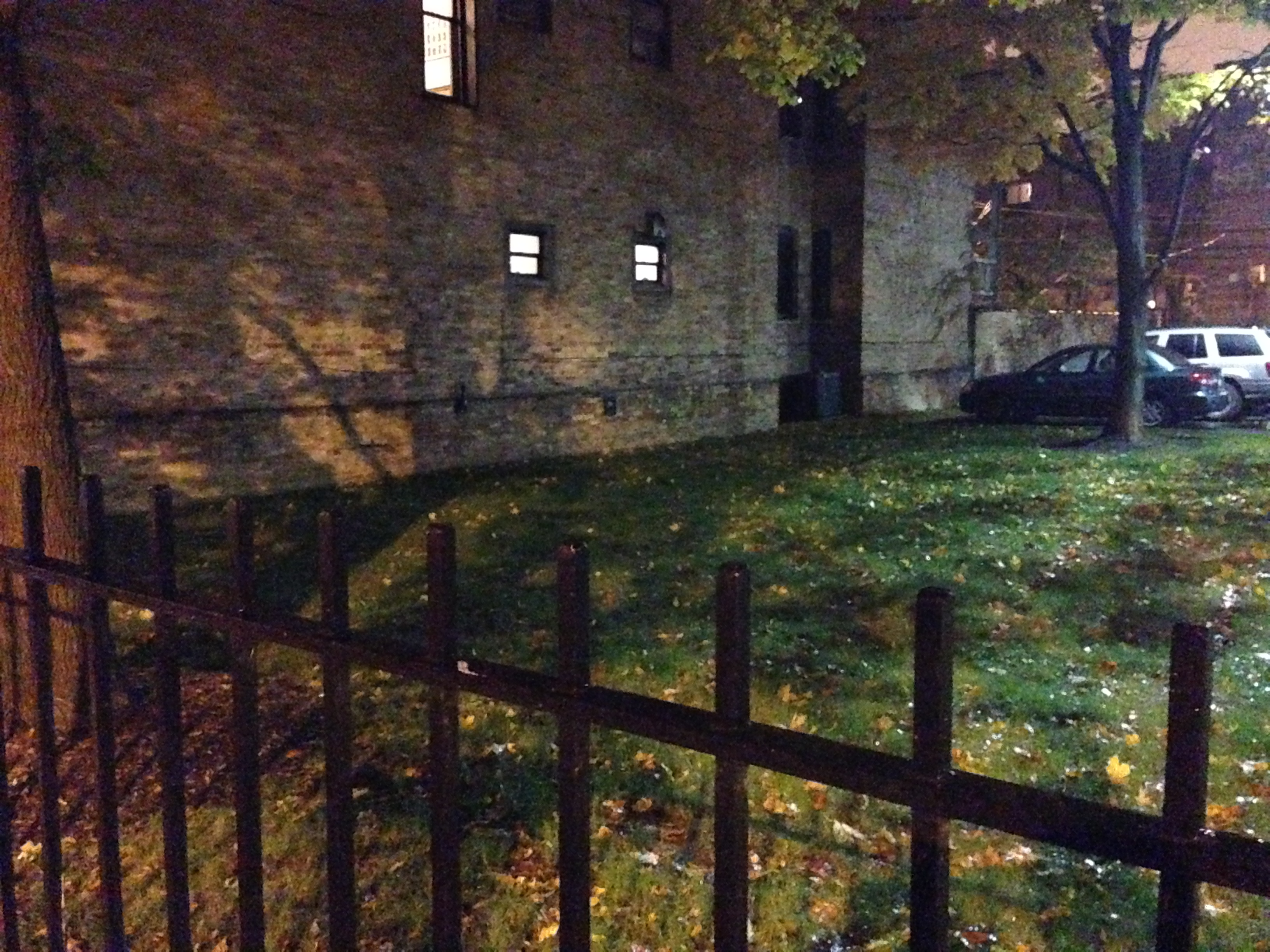 site of the St Valentines day Massacare